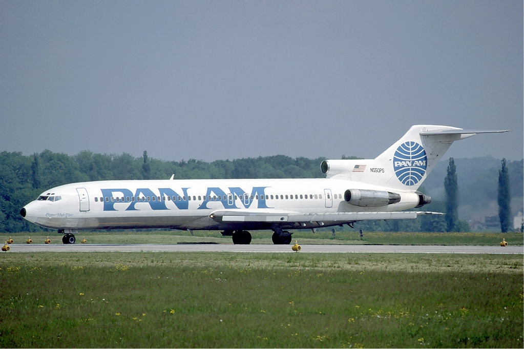 Boeing 727-200 of Pan Am at Zurich Airport